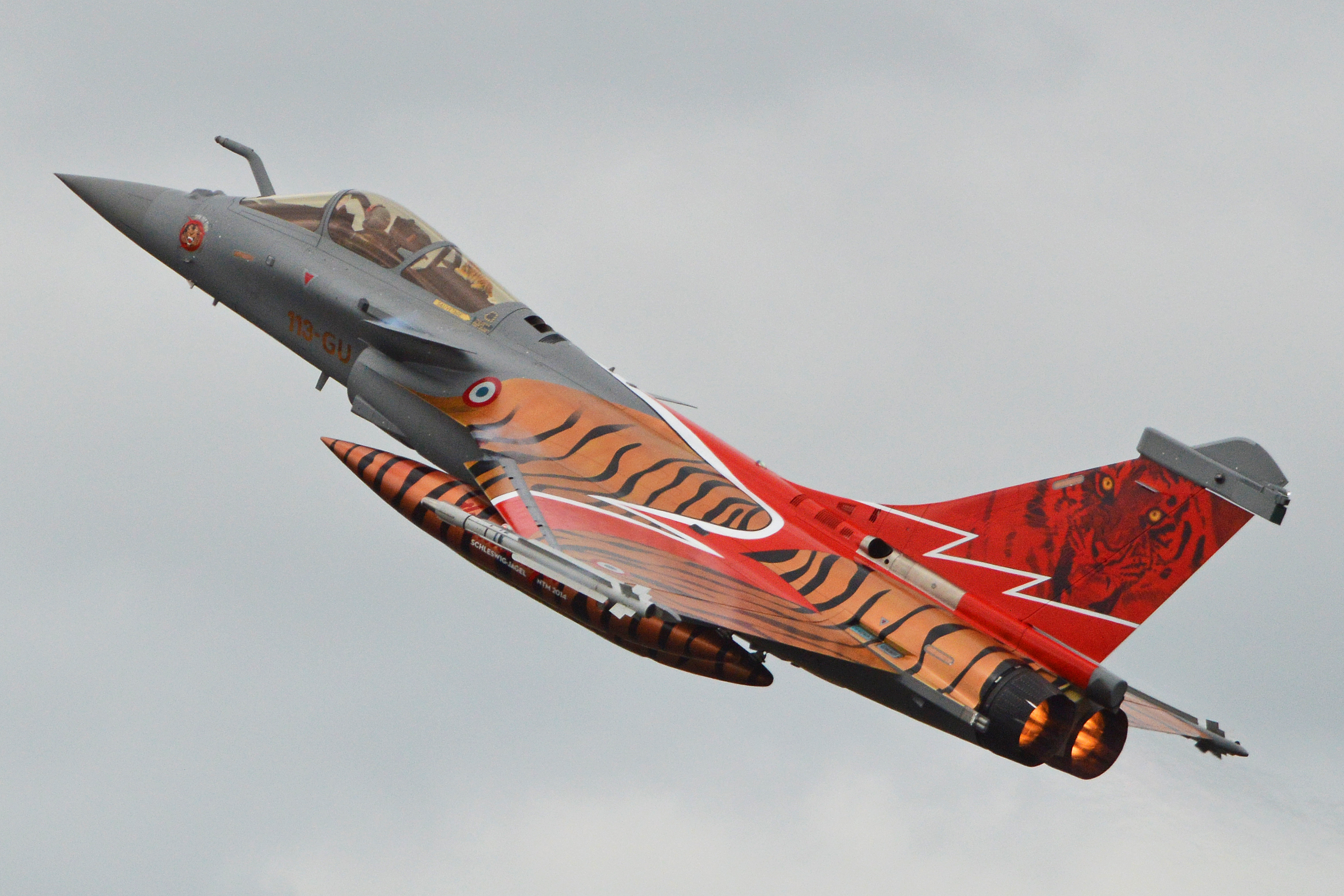 The most stunning 'Tiger scheme' of 2014 was this French Air Force Rafale C. Operated by Escadron de Chasse 1/7 'Provence' (EC01.007), it is based at Saint Dizier (BA113) which is roughly East of Paris. It is seen departing Schleswig-Jagel Airfield in Northern Germany during the 2014 NATO Tiger-meet. 23-6-2014